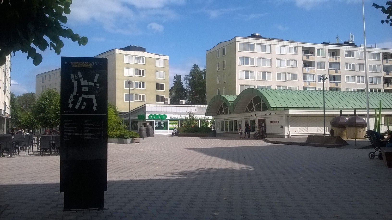 Photo of Bergshamra torg, the main square in Bergshamra, Solna, Sweden, taken on July 22, 2019.